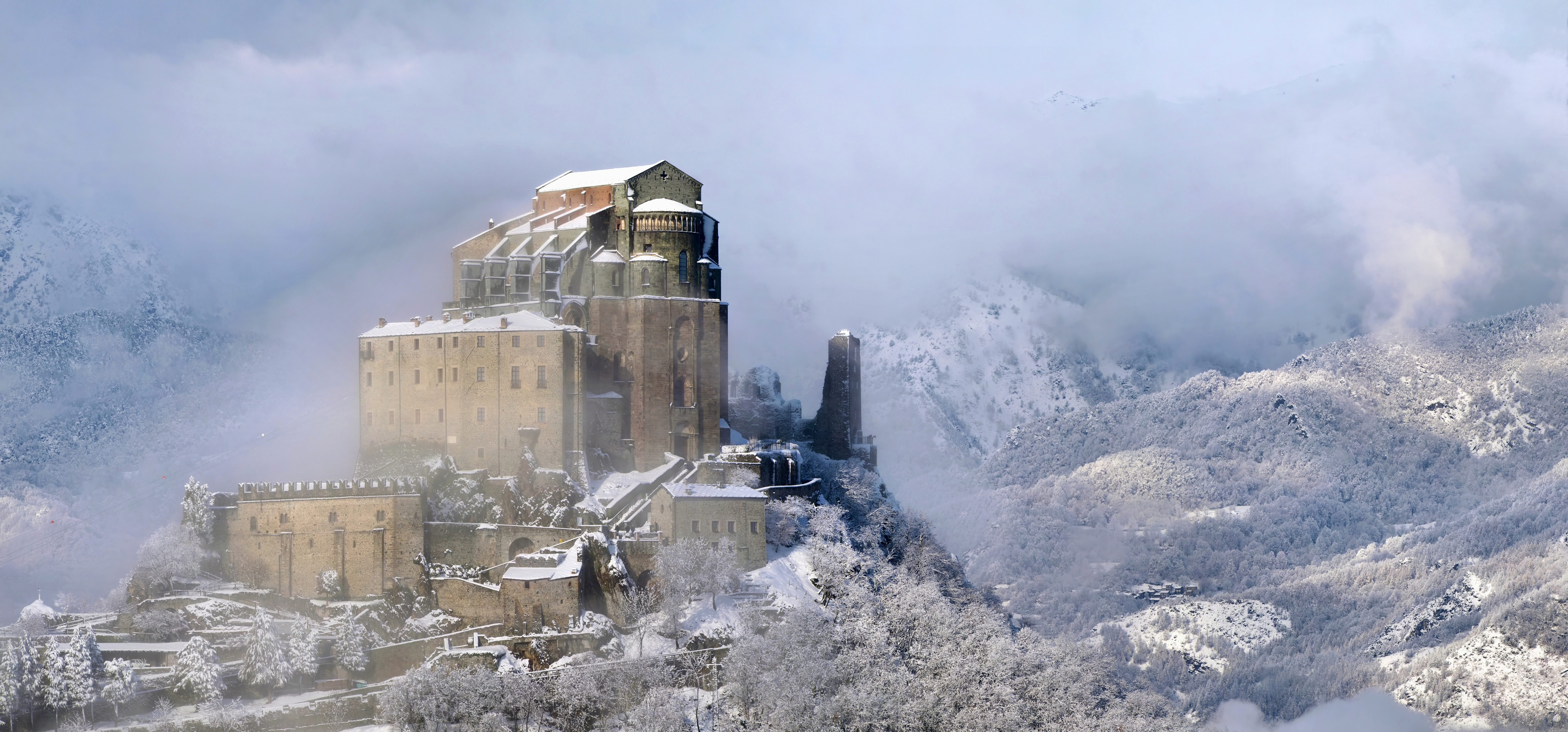 The Sacra di San Michele, sometimes known as Saint Michael's Abbey, is an architectural complex built on top of Mount Pirchiriano, situated on the south side of the Susa valley, in the Piedmont region of northern Italy. Founded between the late 10th and the early 11th century, the abbey is located along the pilgrimage route that joins Monte Sant'Angelo, in the south of Italy, to Mont Saint-Michel, in the north of France.